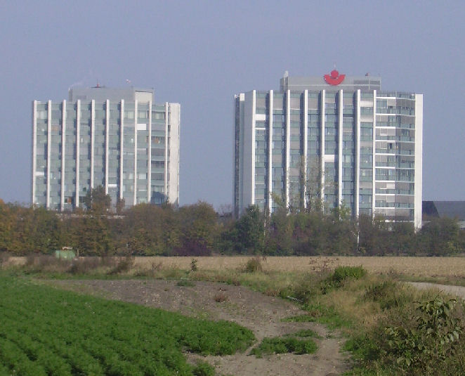 hospital, Ludwigshafen in Rhineland-Palatinate (Germany)